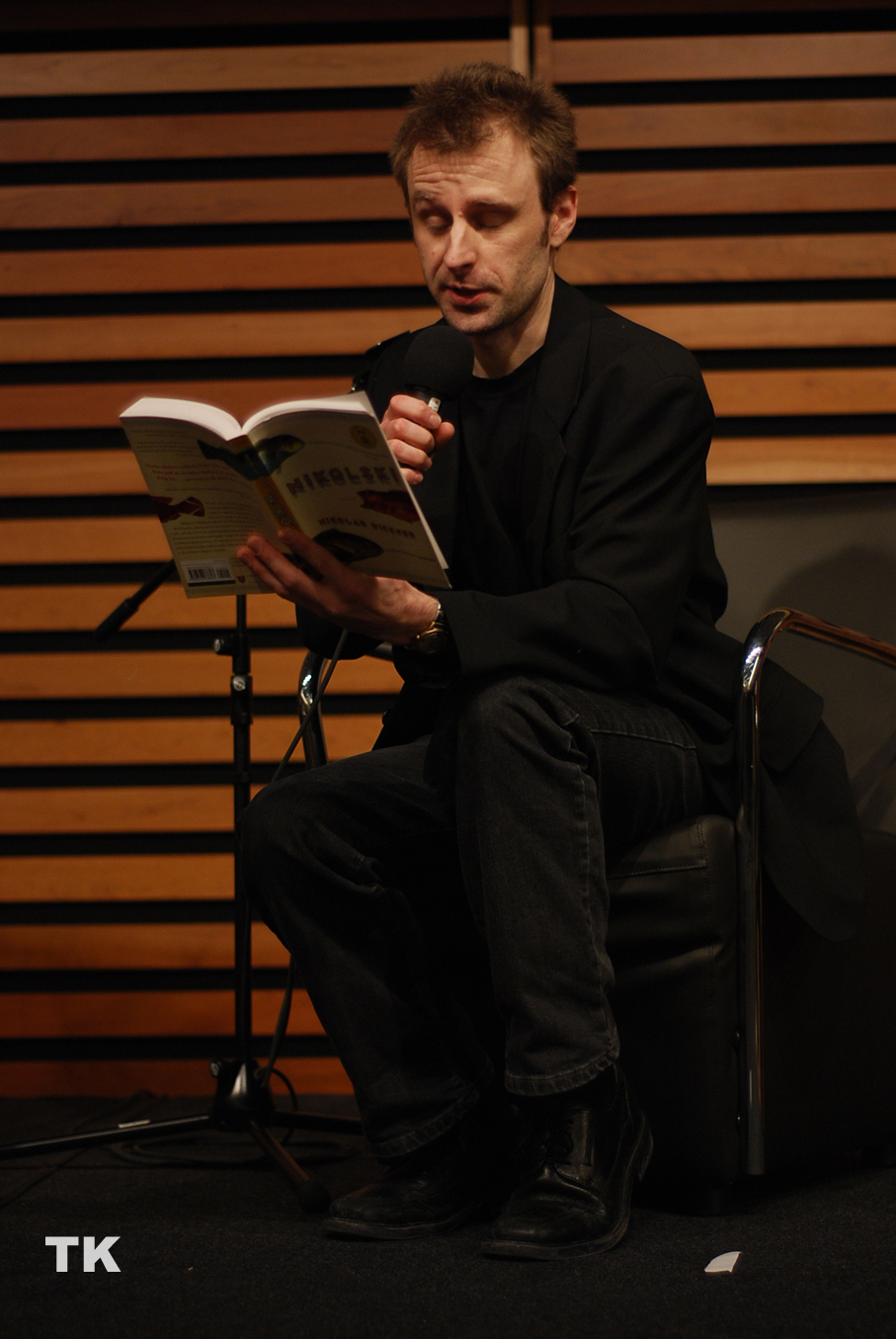 Author Nicolas Dickner at Canada Reads 2010